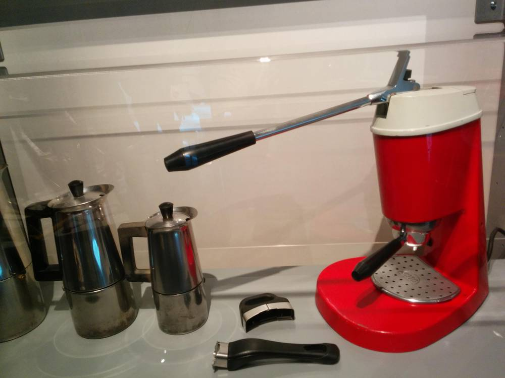 Cofee making machine by Jata, a Basque company.